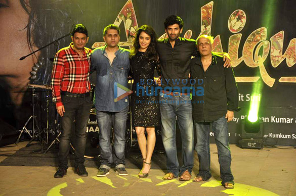 Shraddha Kapoor at Live concert of Aashiqui 2